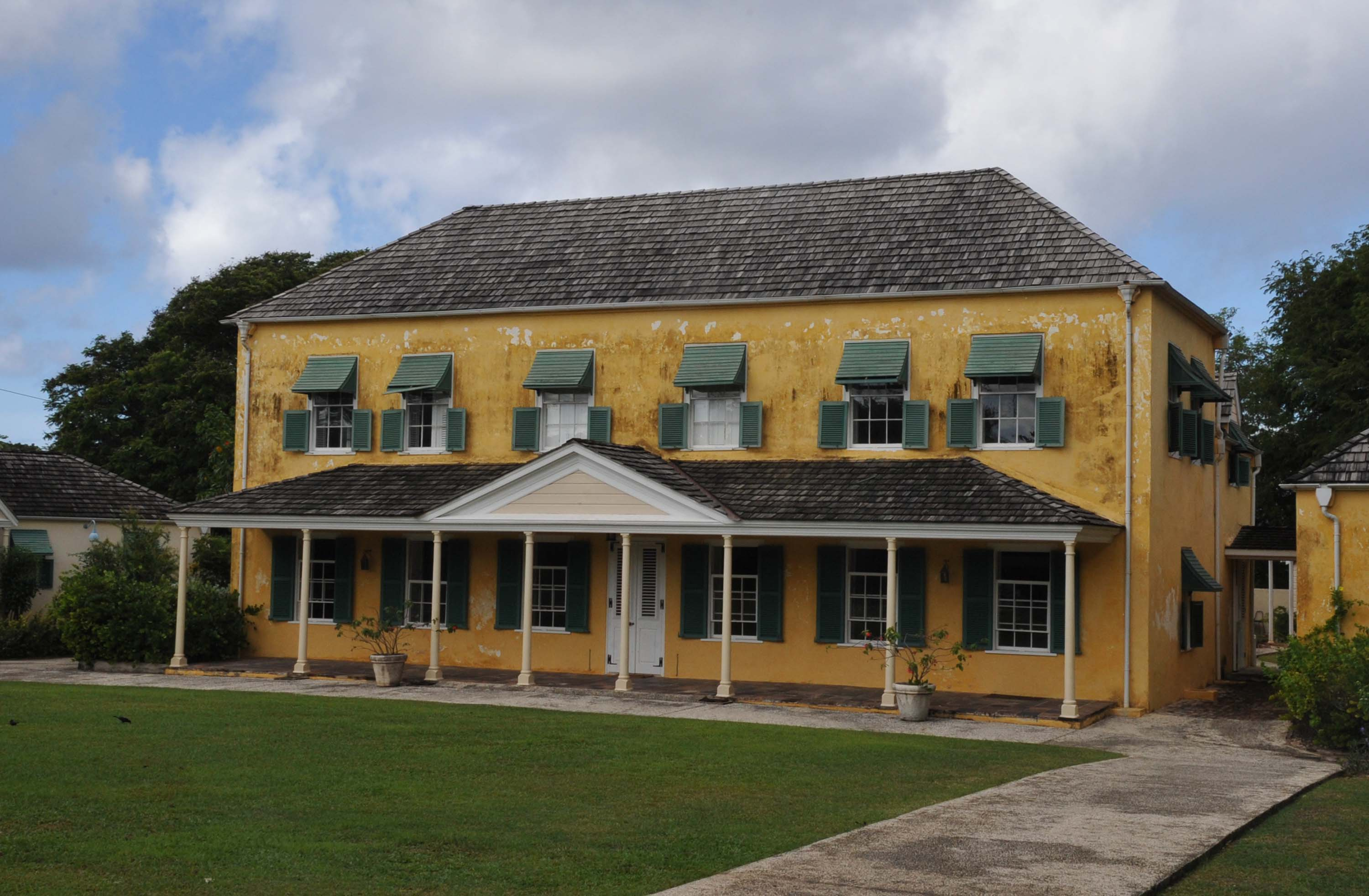 WASHINGTON’S RENTED HOUSE KNOWN THEN AS BUSH HILL HOUSE WAS BUILT IN 1715. THEY RENTED THE HOUSE FOR 15 POUNDS A MONTH IN 1751